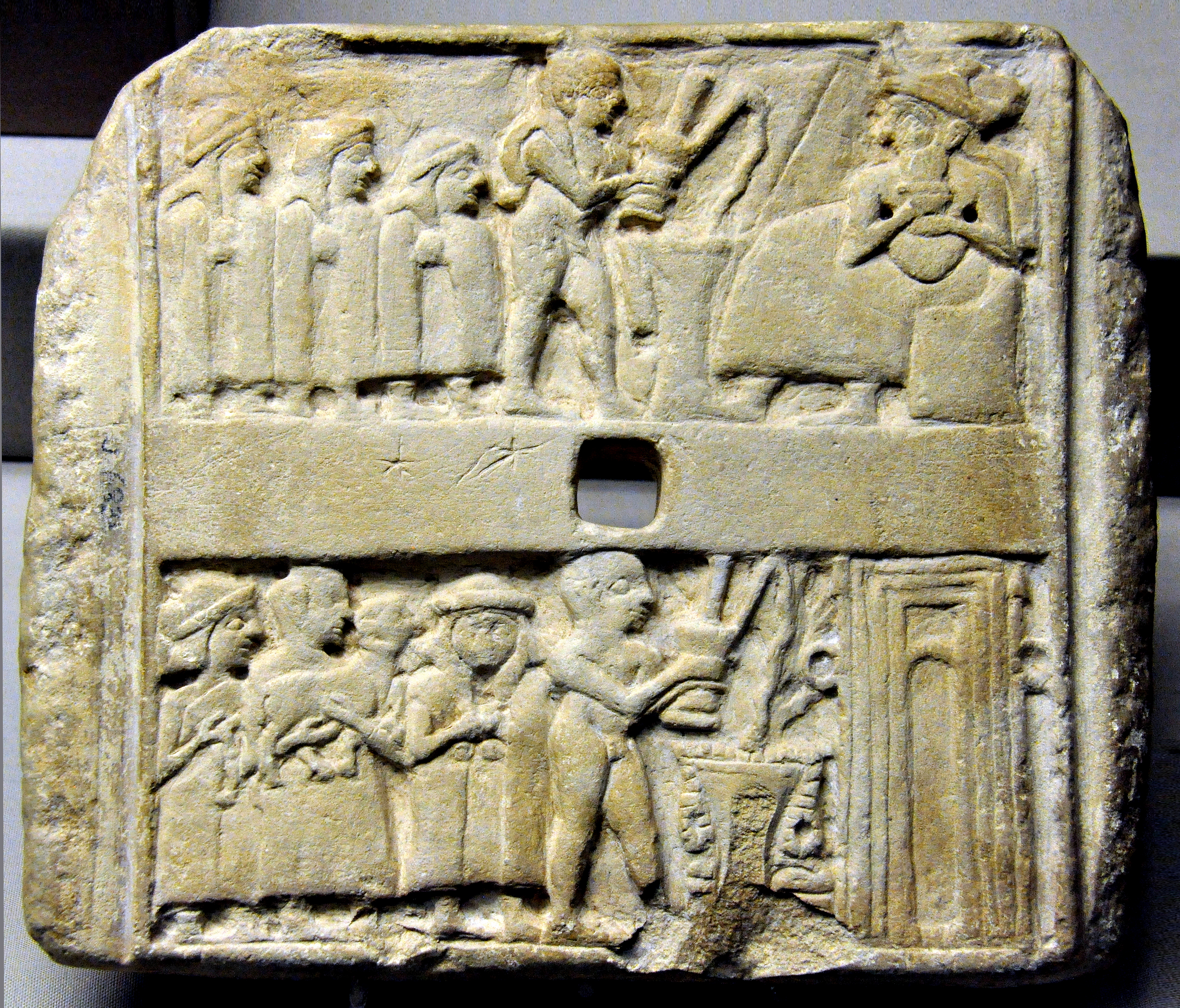 Wall plaque showing libation scene from Ur, Iraq, 2500 BCE. British Museum (adjusted for perspective)